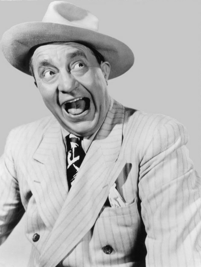 Publicity photo of comedian/actor Chic Johnson.